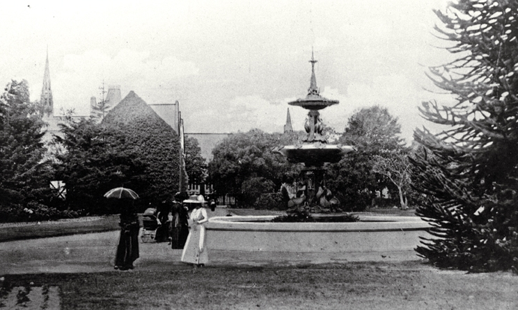 Peacock Fountain, Botanic Gardens, Christchurch [191-?] The Peacock Fountain, a late Victorian park fountain, was made by Coalbrookdale Foundry, Shropshire, and imported from England, funded by a bequest from the Hon. John Peacock (1827-1905). The fountain was unveiled in June 1911, in the Botanic Gardens adjacent to where the Robert McDougall Art Gallery was later built. It was moved to the Archery lawn a few years later. In 1949 the fountain was dismantled and put into storage because of recurring maintenance problems. The City Council transferred the components to Ferrymead Historic Park in the 1980s. Over the years pieces of the fountain went missing or deteriorated in storage. A committee was formed to restore it and in 1995 a conservation plan was prepared. Of the 309 cast pieces that made up the fountain, 158 had to be re-cast. The Peacock Fountain was reinstalled in the Botanic Gardens on the south side of the Canterbury Museum in 1996 with an improved pipe system and a new colour scheme.